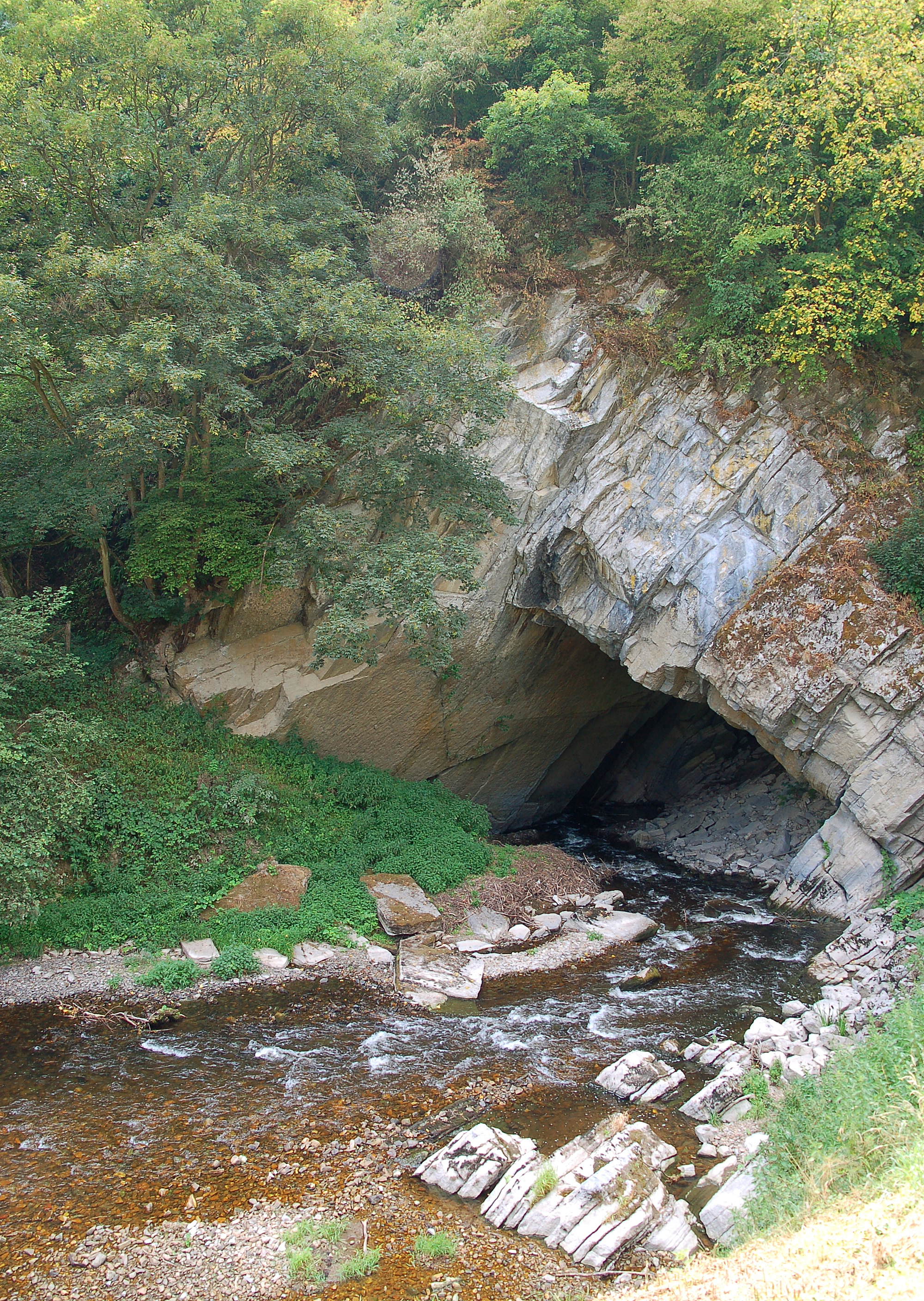 Gouffre de Belvaux, Belgium. Ponor (Entrance) of river Lesse into the Caves of Han-sur-Lesse. Exits a mountain on its opposite side (base of the mountain ca. 1100m).